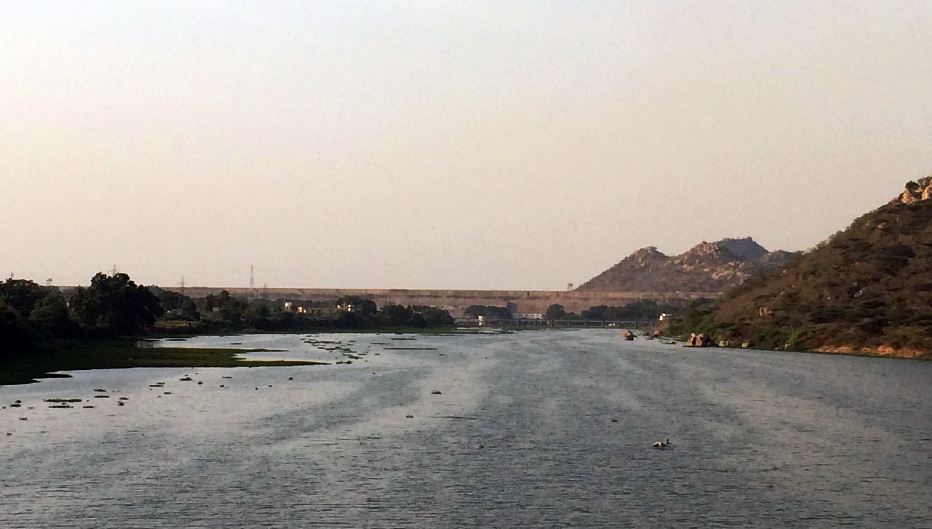 River Cauvery at Mettur Dam, Tamil Nadu, India